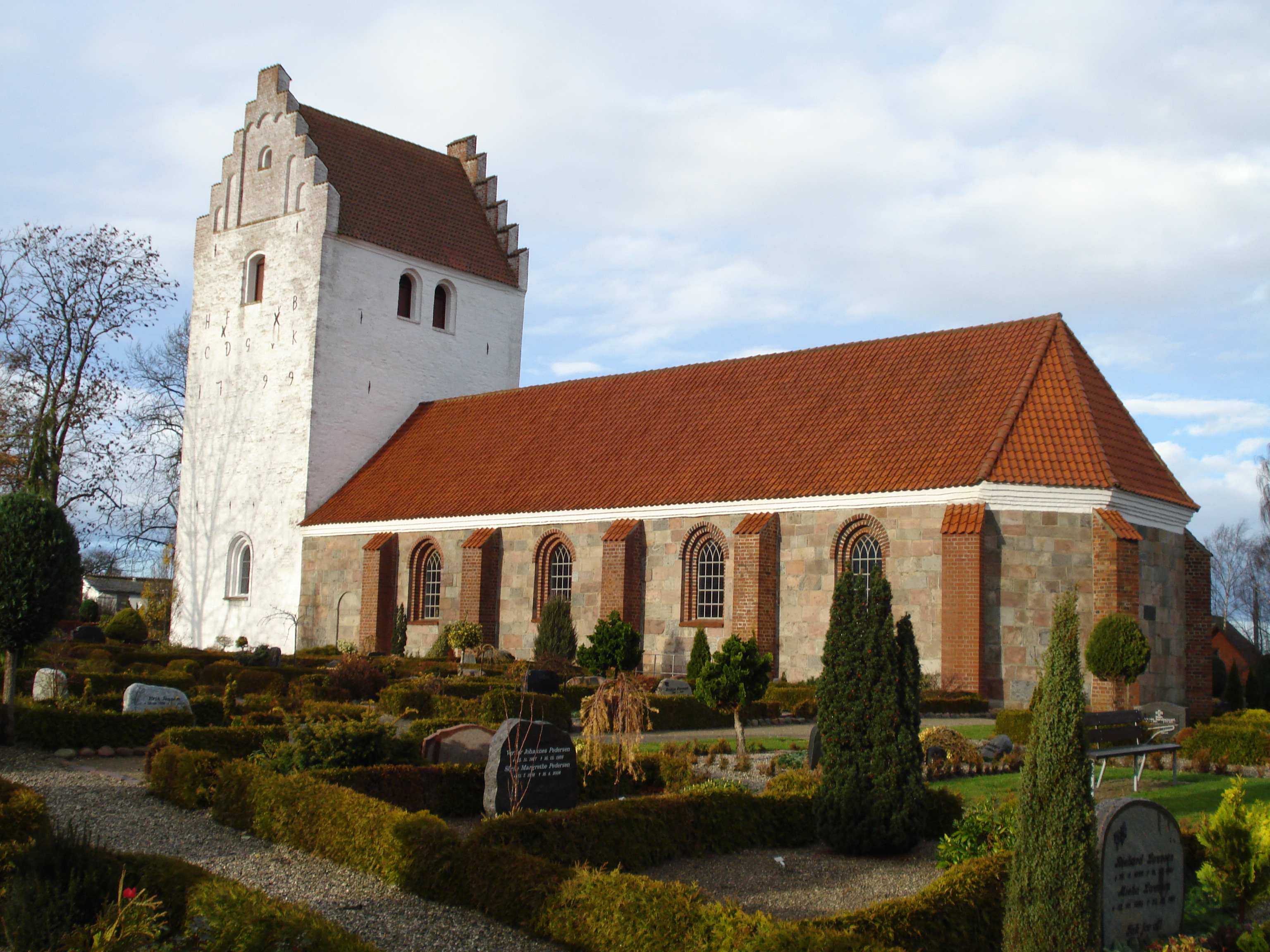 Glesborg Church, Jutland, Denmark